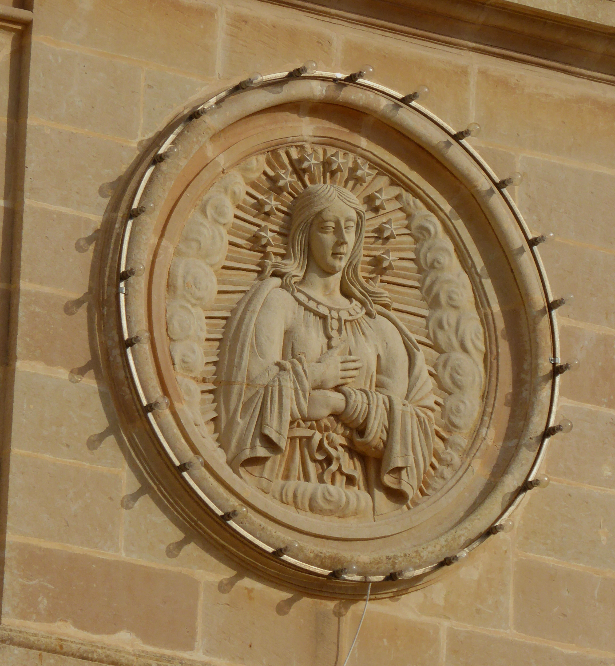 Relief sculpture depicting the Virgin Mary on the Parish Church of the Nativity of Our Lad in Xagħra, Gozo.